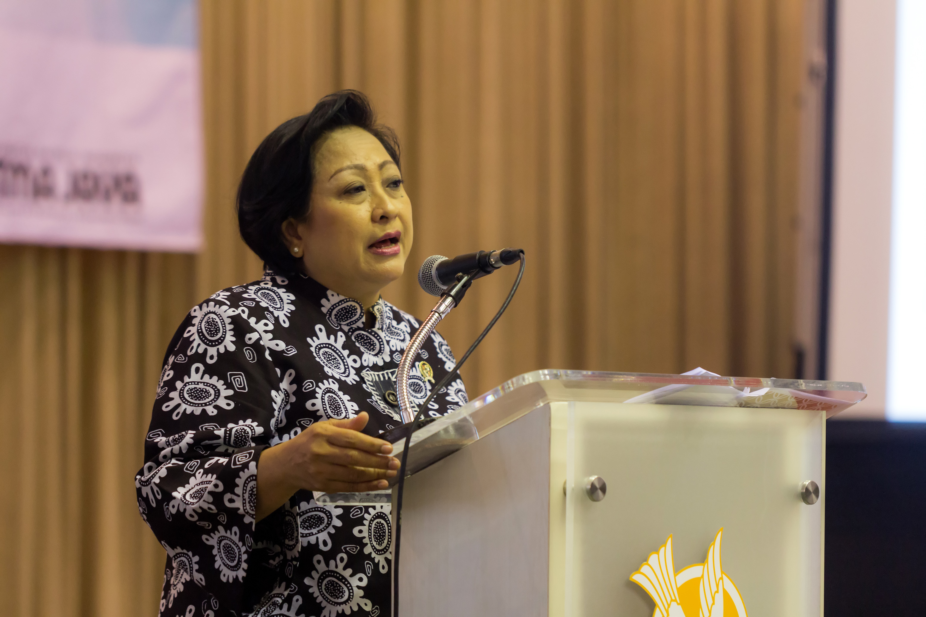 Chairwoman of the Presidential Advisory Committee of Indonesia, Sri Adiningsih, speaking at the 9th International Indonesia Forum, held on 23-24 August 2016 at Atma Jaya Catholic University, Jakarta